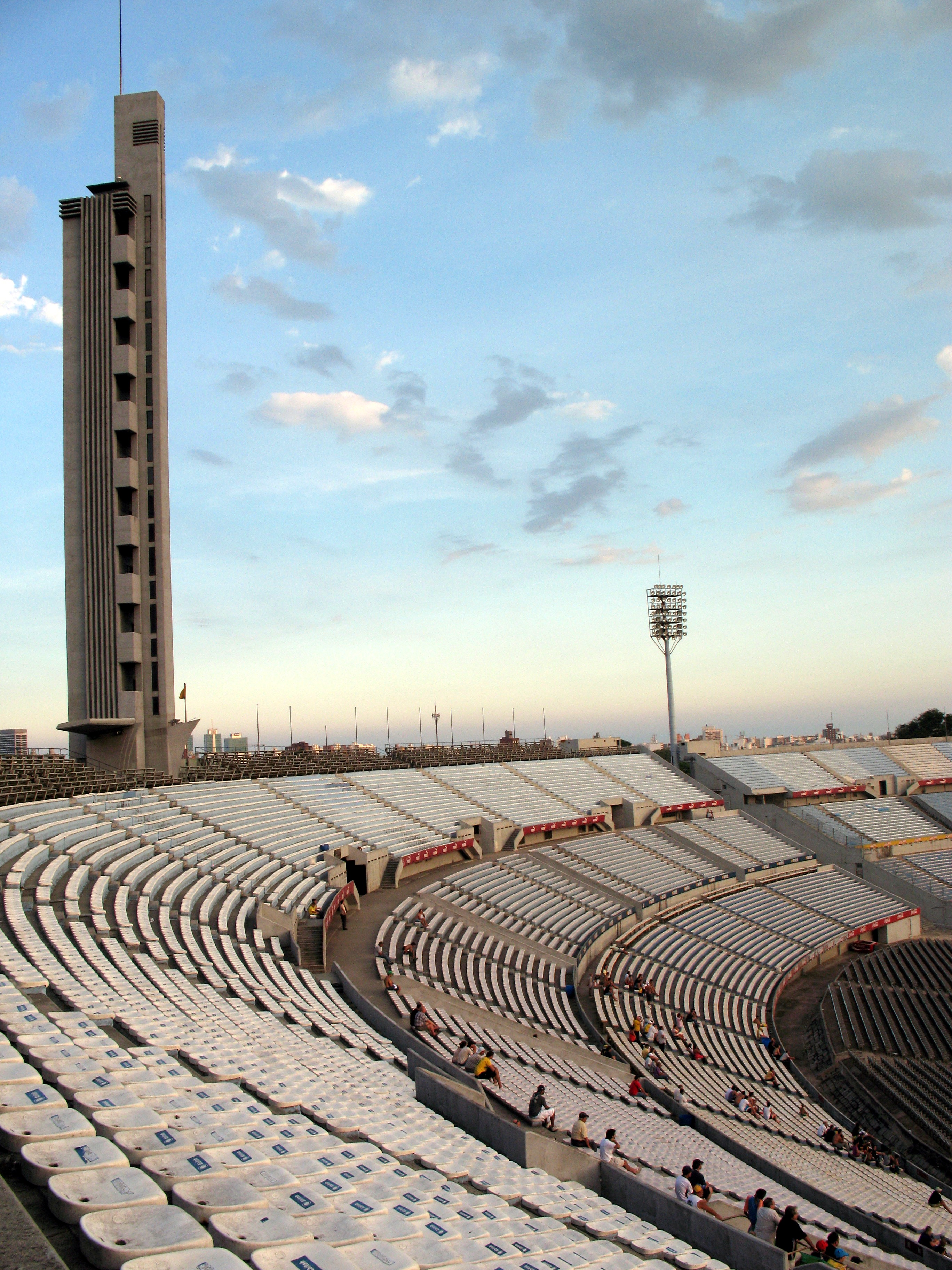 Torre de los Homenajes (Estadio Centenario, Montevideo) above Tribuna Olimpica